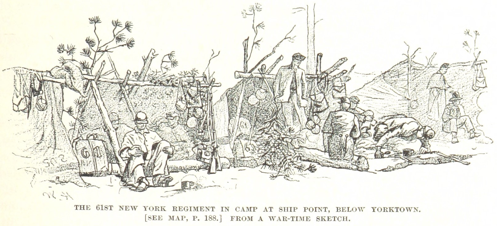 Members of the 61st New York Volunteer Infantry Regiment at the Siege of Yorktown in 1862